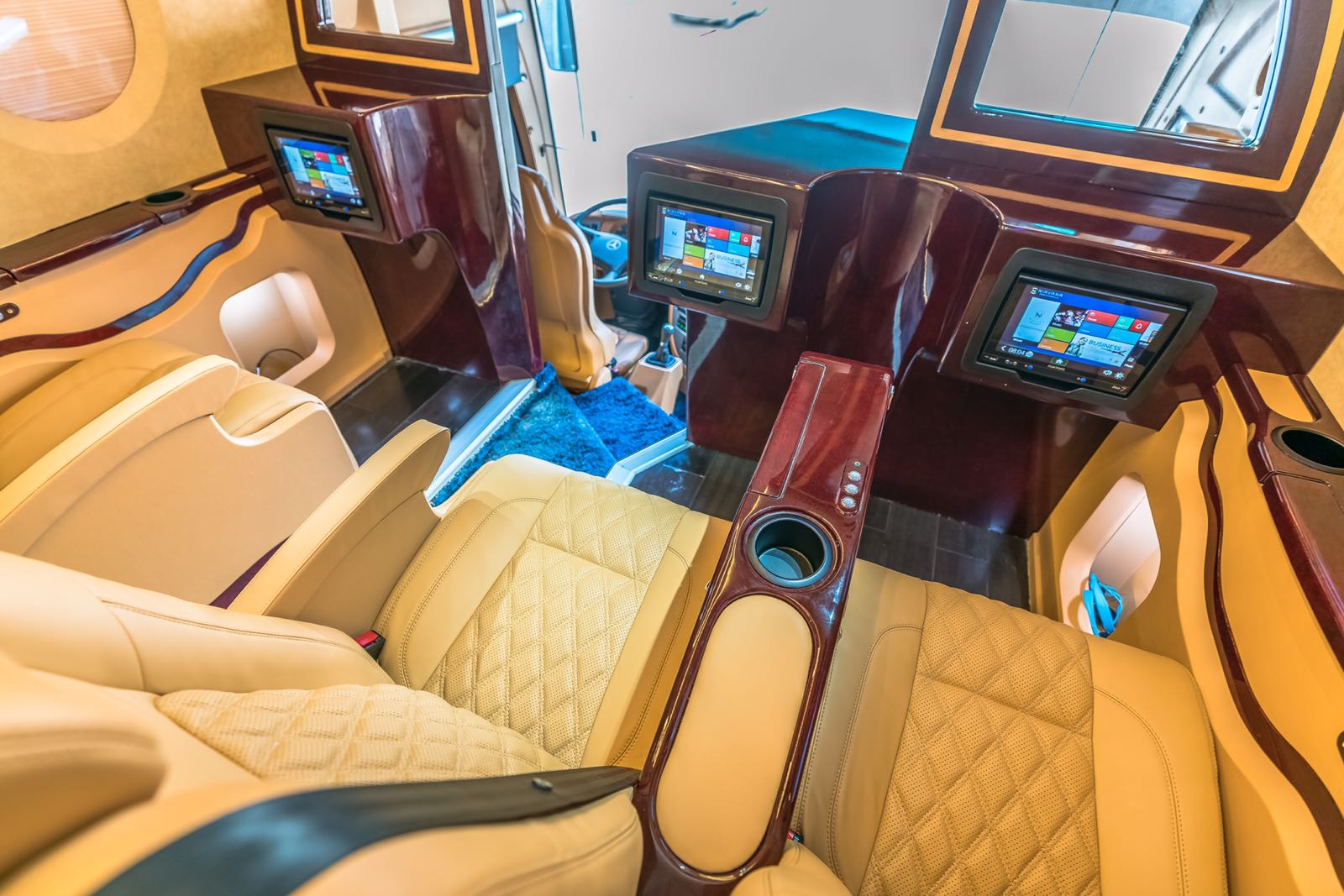 FUNTORO MOD monitors installed in bus